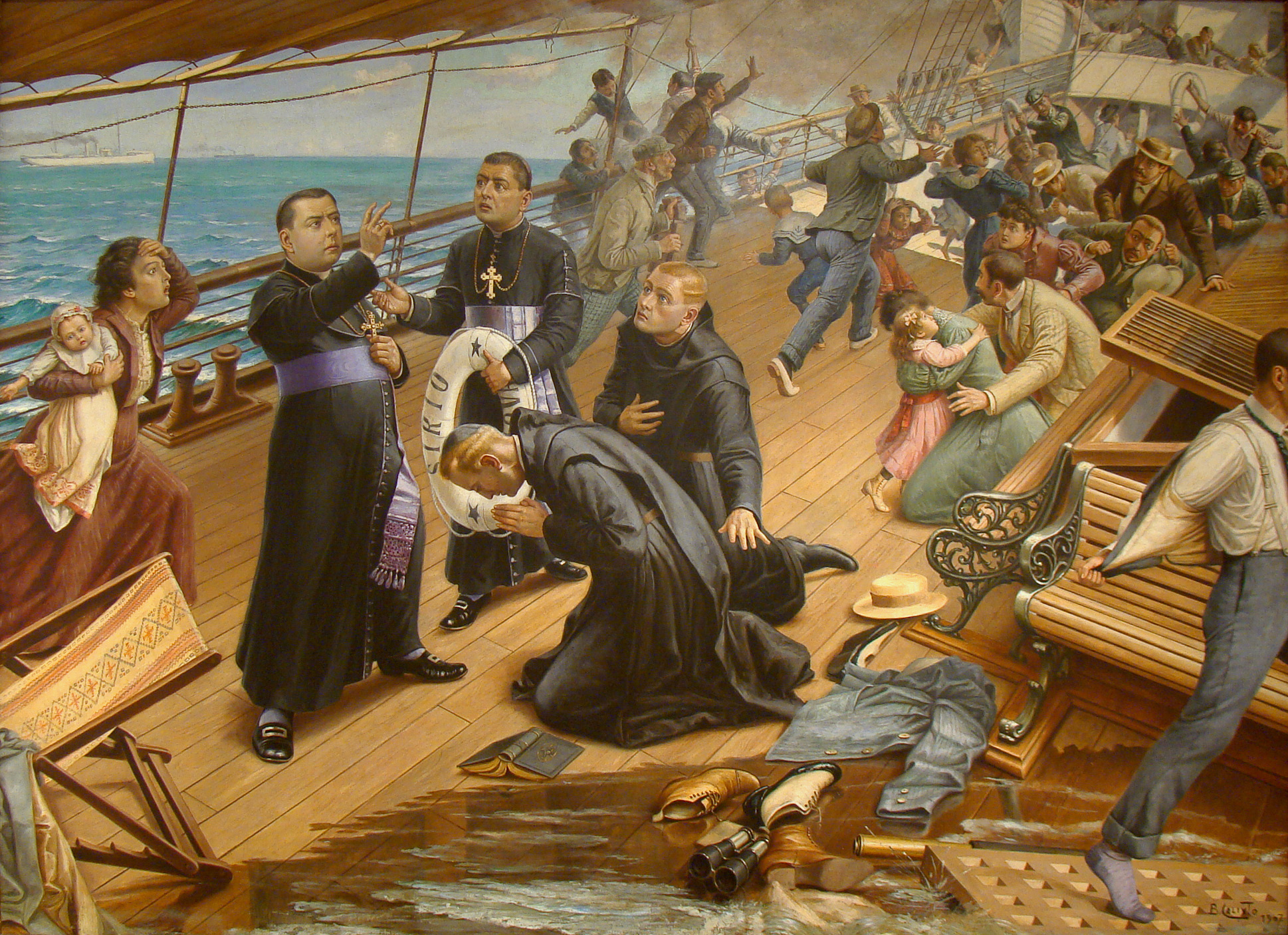 Benedito Calixto: Wreckage of the Sirio, 1907, oil on canvas; on the sinking ship, a bishop blesses two kneeling Benedictines (Boniface Natter - bent forward, with zucchetto - and Anscar Vonier).